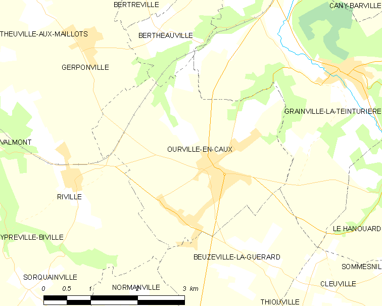 Map of French municipality Ourville-en-Caux